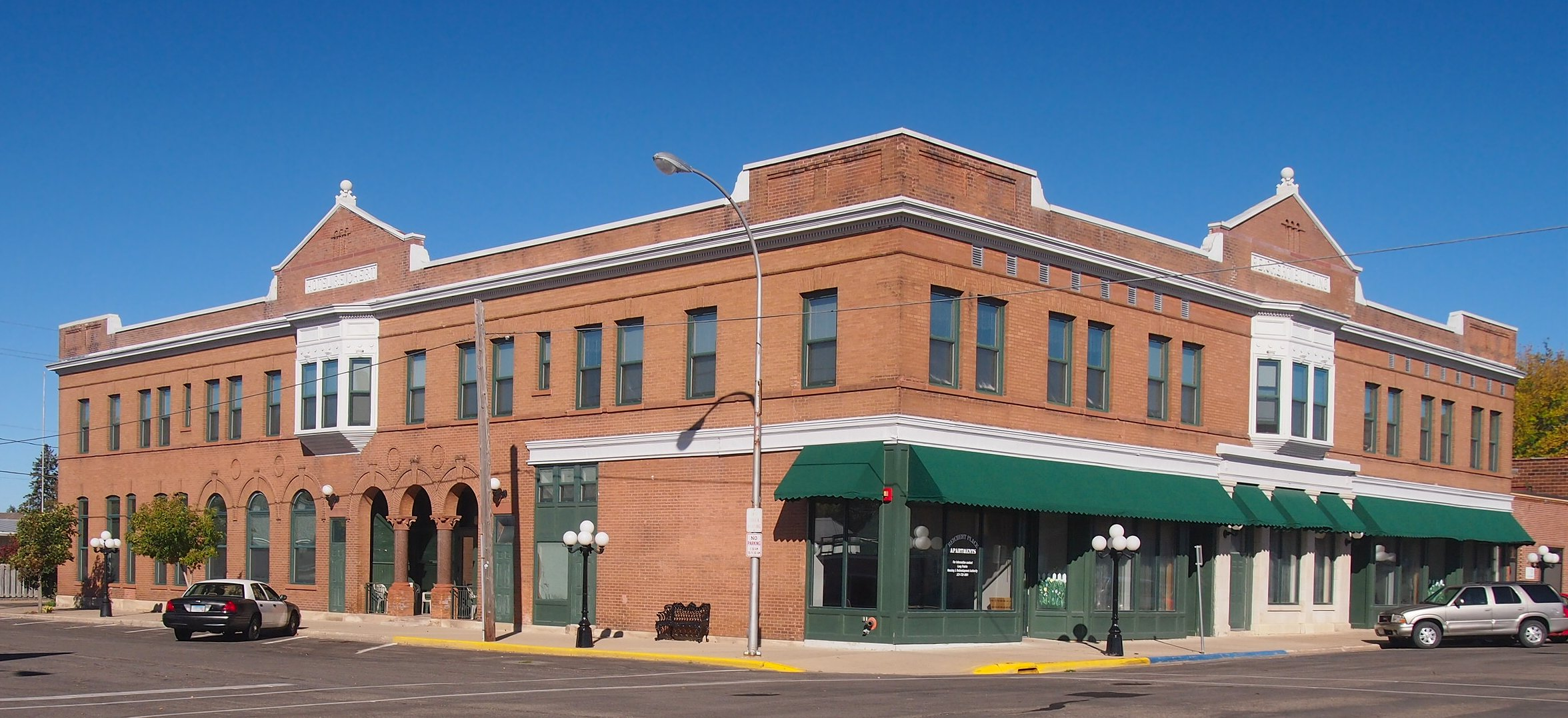 Hotel Reichert (now Reichert Place Apartments), 20 3rd St N, Long Prairie, Minnesota, USA. Viewed from the southwest.